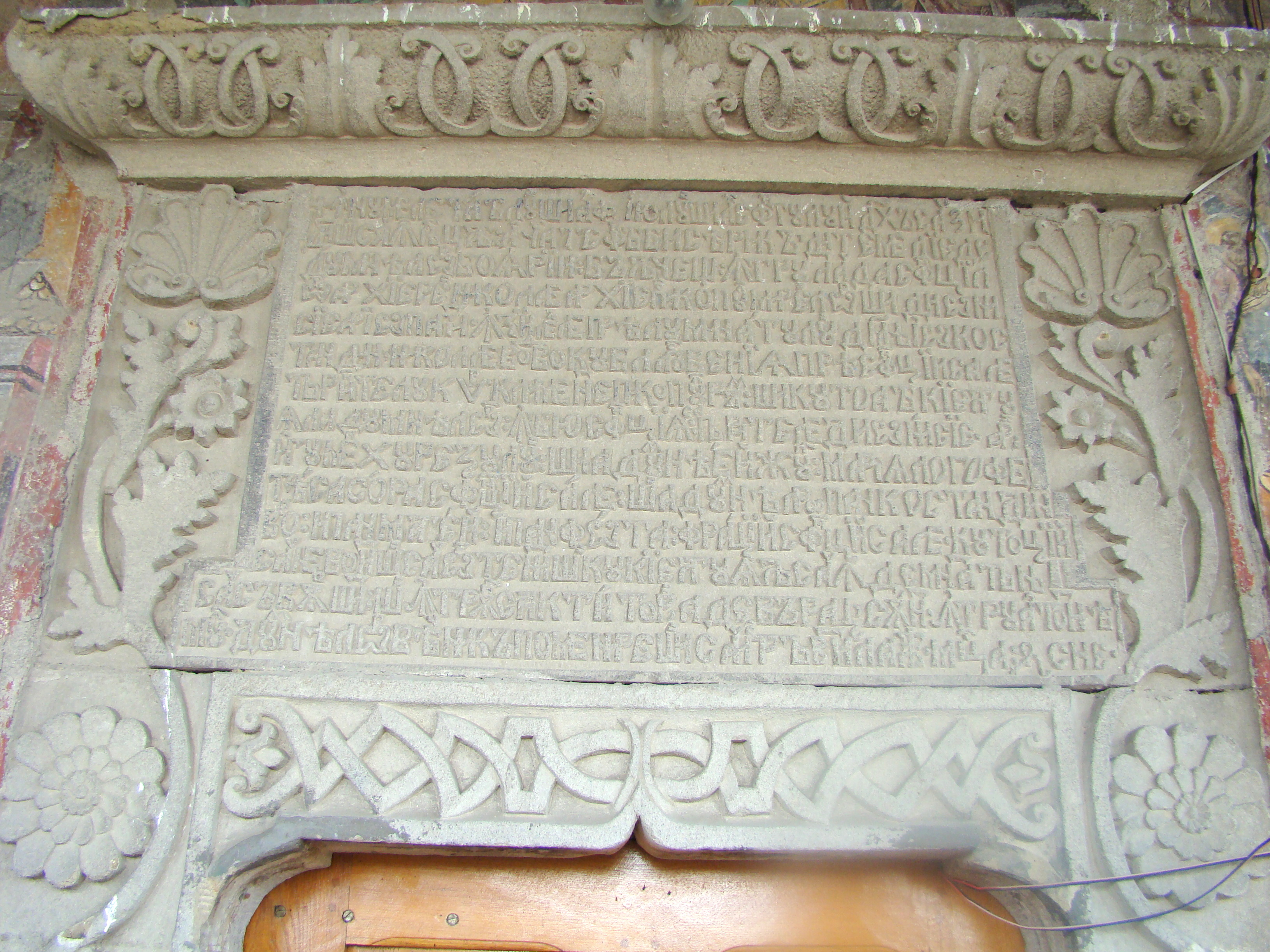 Saint Nicholas church in Telești, Gorj county, Romania